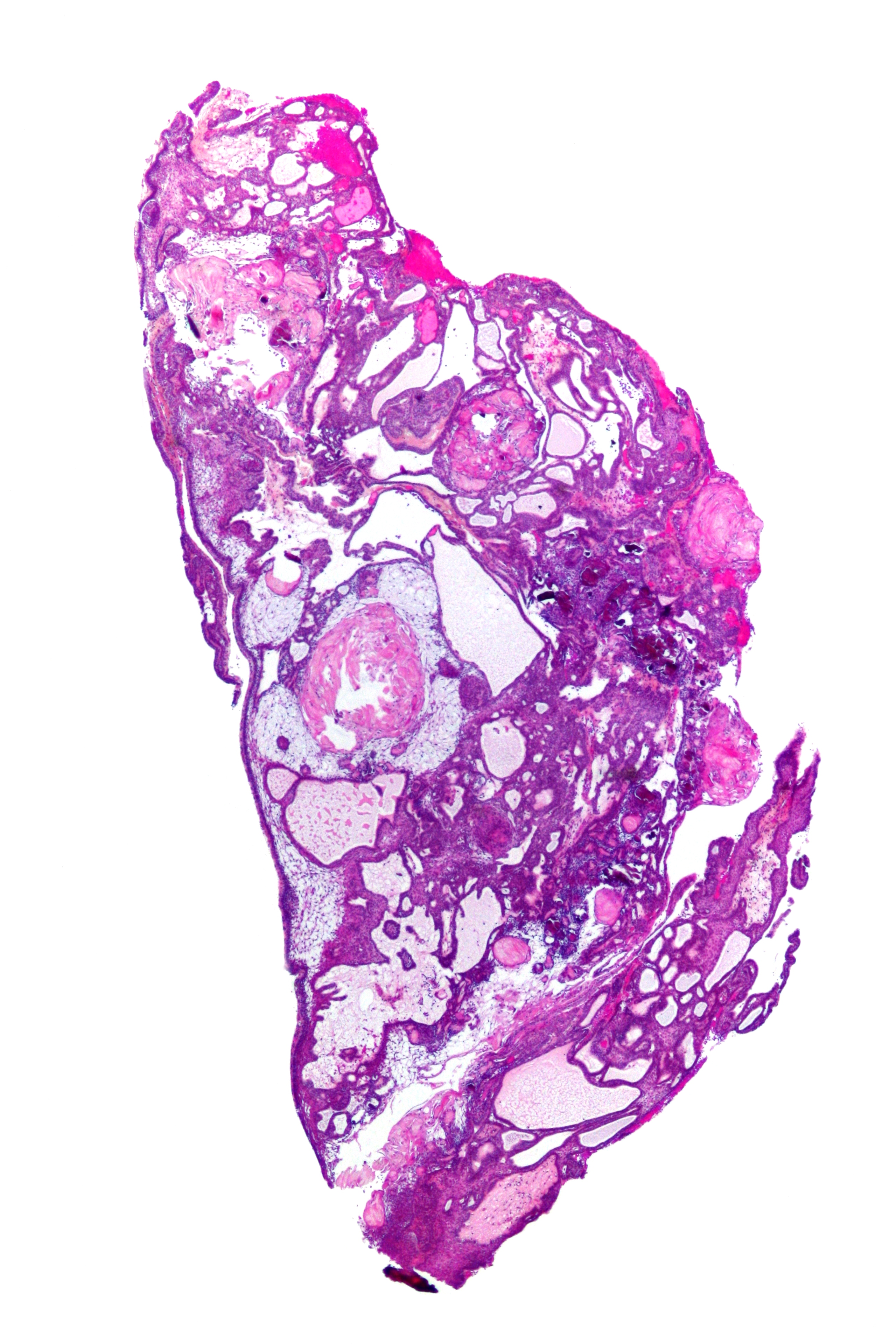 Very low magnification micrograph of an adamantinomatous craniopharyngioma. HPS stain. Features: Cystic spaces. "Wet" keratin. Calcifications. Related images Low mag. Intermed. mag. High mag. Very high mag.